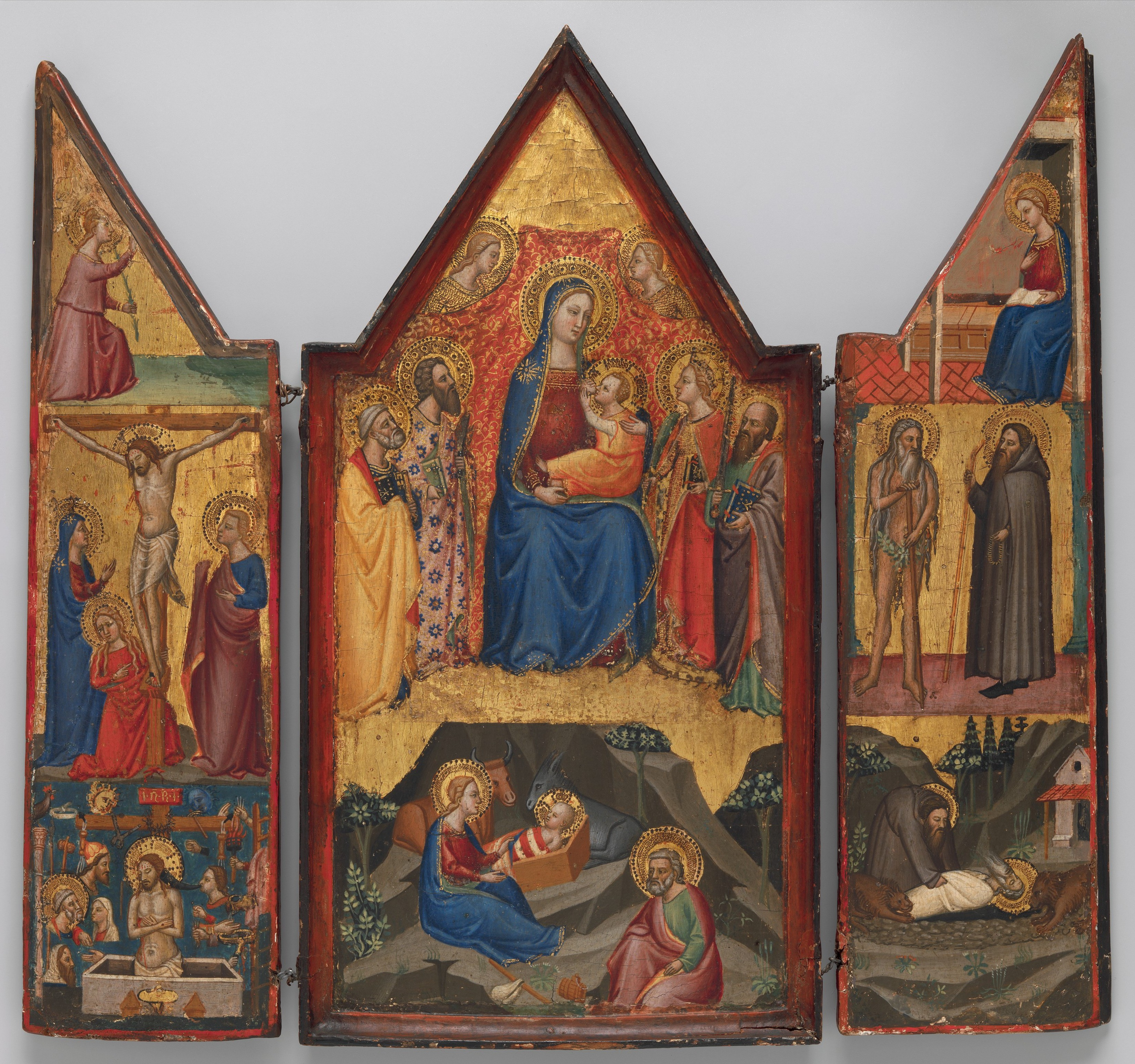 Matteo di Pacino, Madonna and Child Enthroned with Saints ca. 1380–90 45х43 Metmuseum